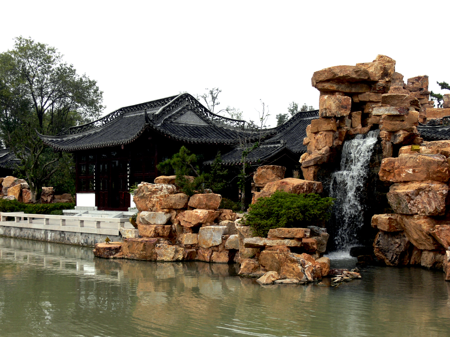 Water Falls from Rocky Cliffs Garden 瘦西湖石壁流淙